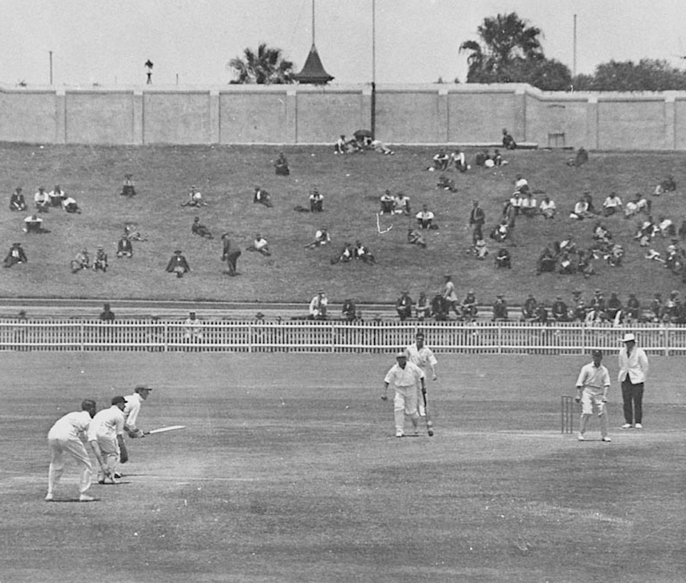 Cricket player Alan Kippax at Sydney Cricket Ground